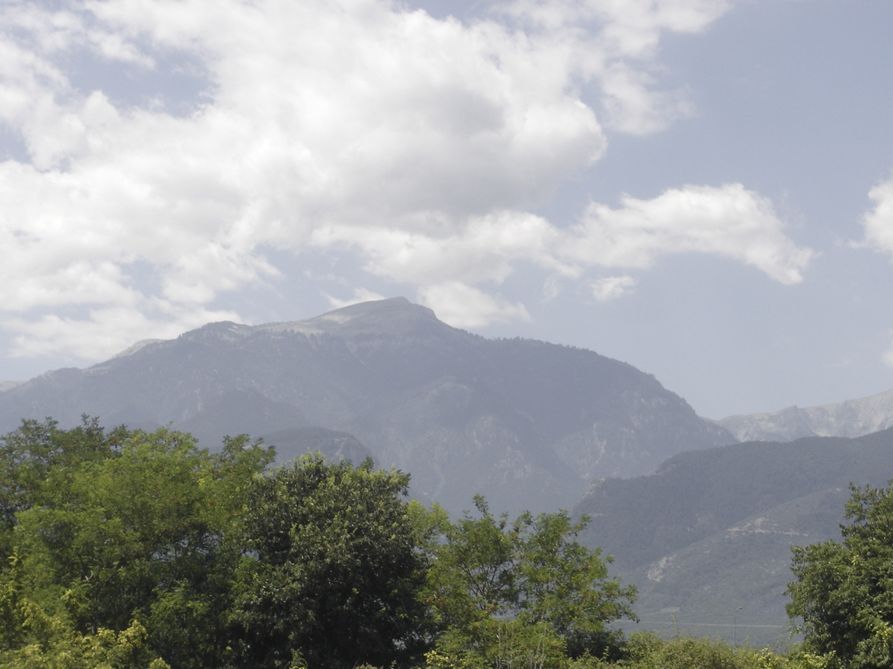 Mount Olympus as seen from Litohoro.